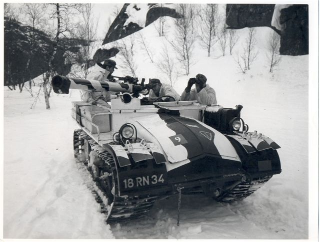 Open Top Snow Trac ST4, shown as a WOMBAT gun carrier variant, in use by the British Royal Marines.